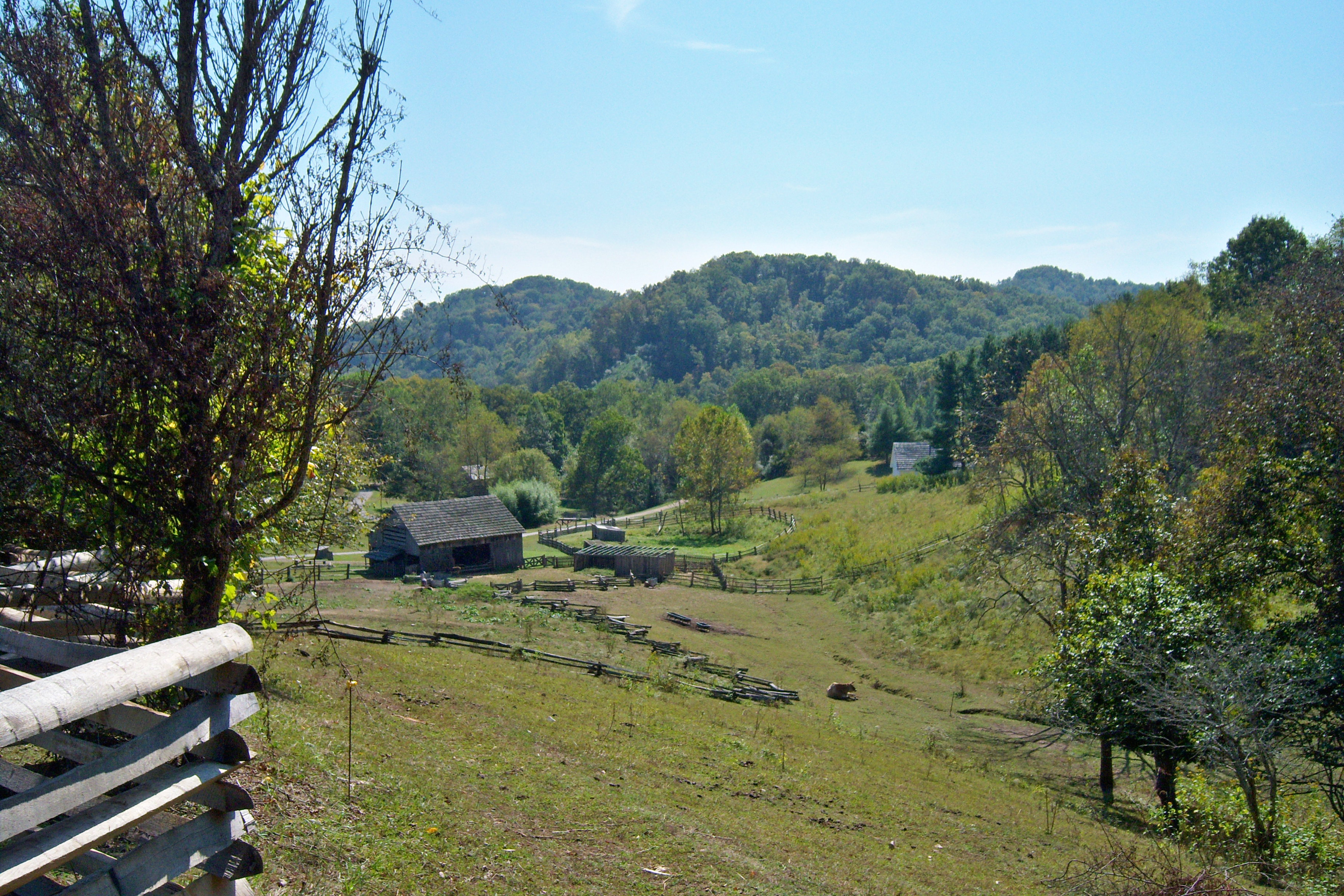 Part of the Mountain Homeplace in Staffordsville.